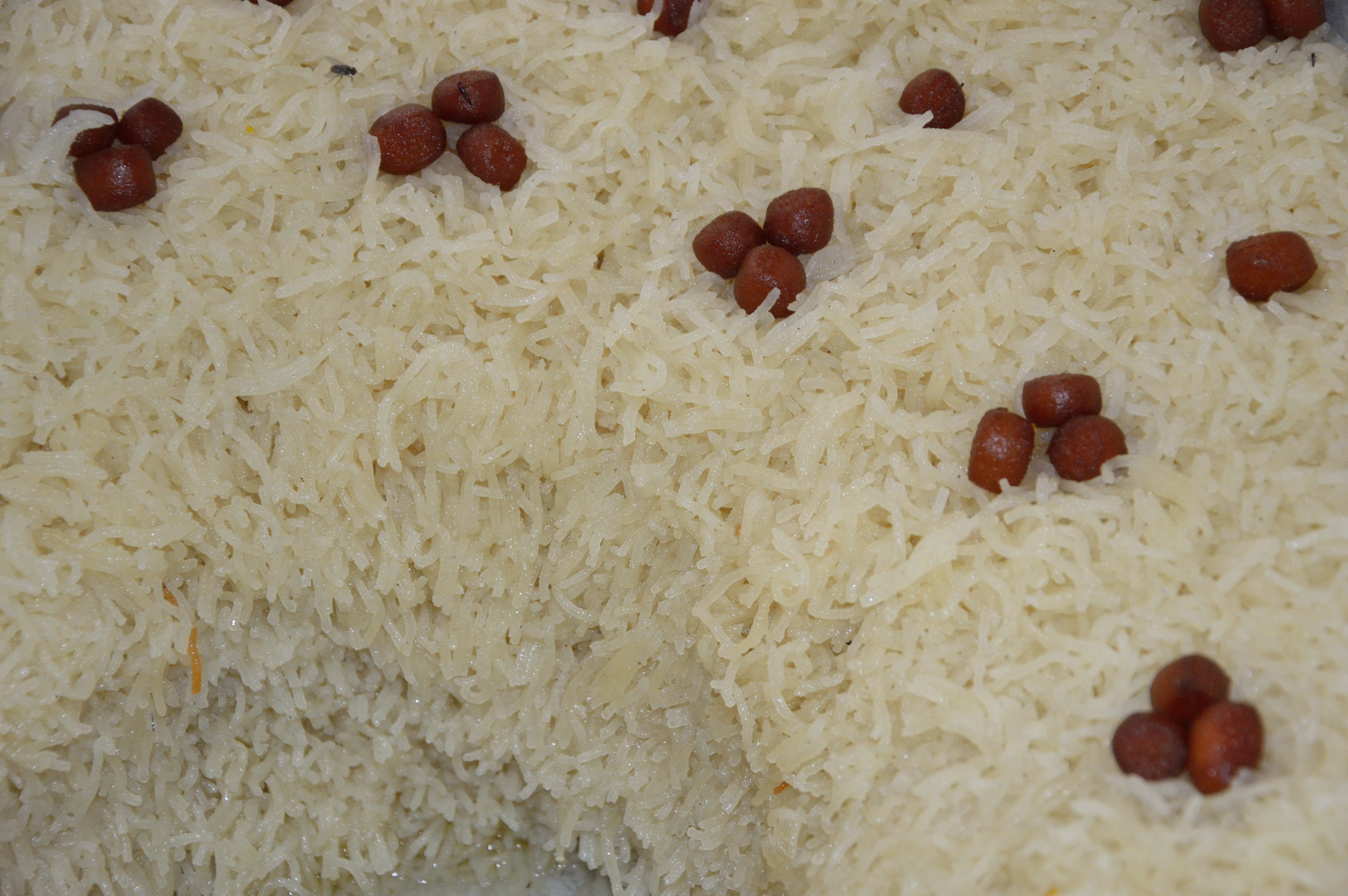 Photographed at the 'Adi Langcha House' on 'Asian Highway', Saktigarh, Bardhaman.